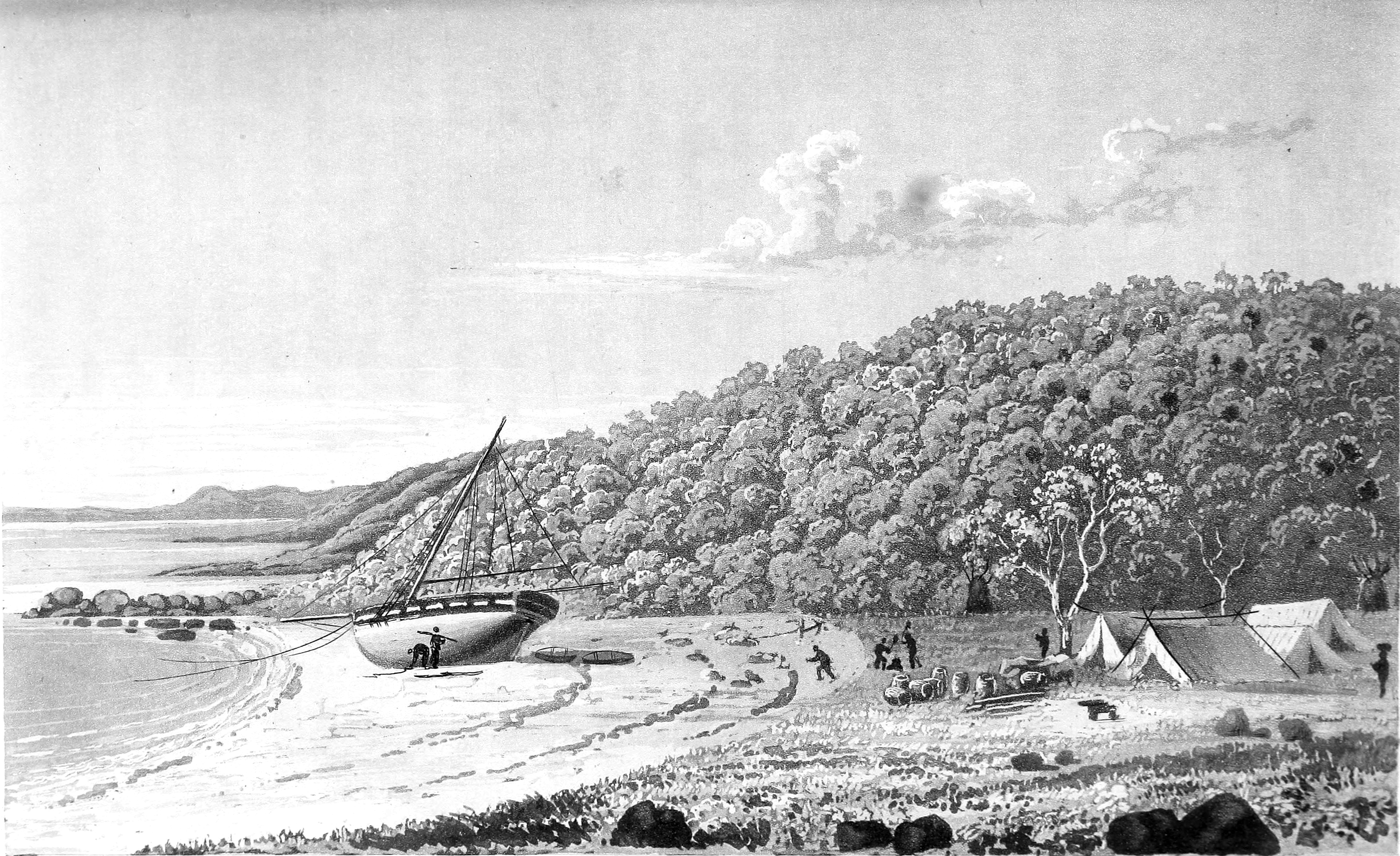 VIEW OF THE ENCAMPMENT IN CAREENING BAY. WHERE THE MERMAID WAS REPAIRED. From a sketch by P.P. King. Published May 1825, by John Murray, London. Careening Bay, was named after events in 1820. Lieutenant Phillip Parker King, on his third trip charting the coast of Western Australia, got into trouble with His cutter The Mermaid which began taking on water calling for drastic action. Waiting for the right tidal conditions, Parker King landed her on the beach. Hence the name. Fortunately for Parker King there his crew were able to salvage metal from nearby shipwrecks, which was melted down and used to make repairs. During the ten days that it took to complete the maintenance, the ship’s carpenter visited the local Boab tree and carved ‘HMC Mermaid 1820’ into the trunk. Nearly 200-years later, the lettering has grown to 12m high and is a tourist attraction. The Boab, a distinctive tree with a fat trunk and few leaves, was evidently as much a pull to visitors in days-gone-by as there is also an old Makassan Islamic prayer alcove at the rear of the tree.